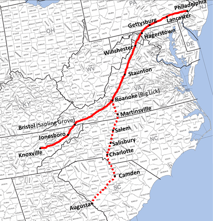 The Great Valley Road went from Philadelphia, Pennsylvania to Roanoke, Virginia. There it split with one fork going to Knoxville, Tennessee, and the other to Augusta, Georgia